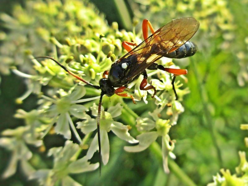 Ctenichneumon inspector (Ichneumonidae) - (imago), Arnhem - Drielsedijk e.o., the Netherlands